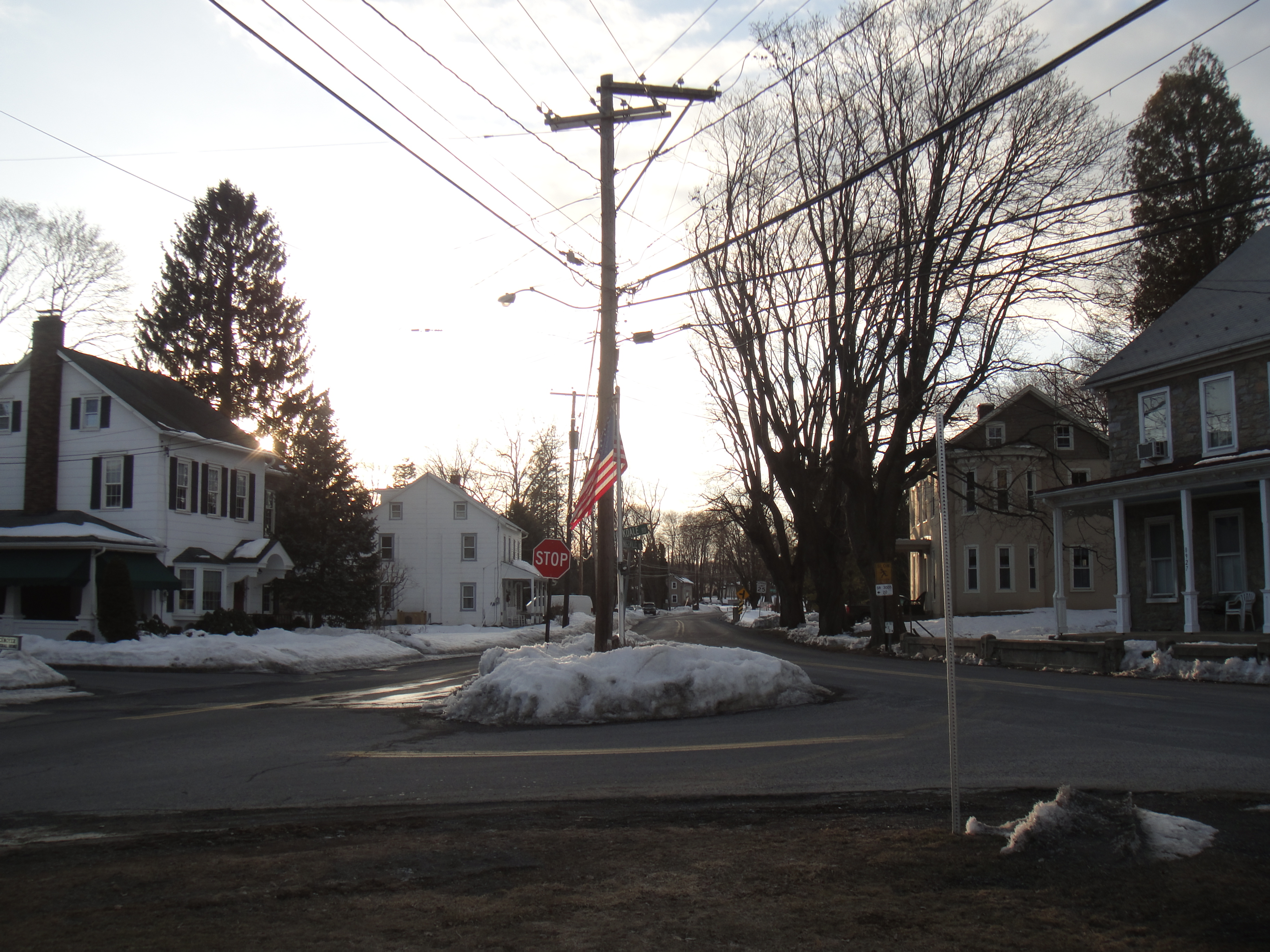 The old neighborhood of Breinigsville.